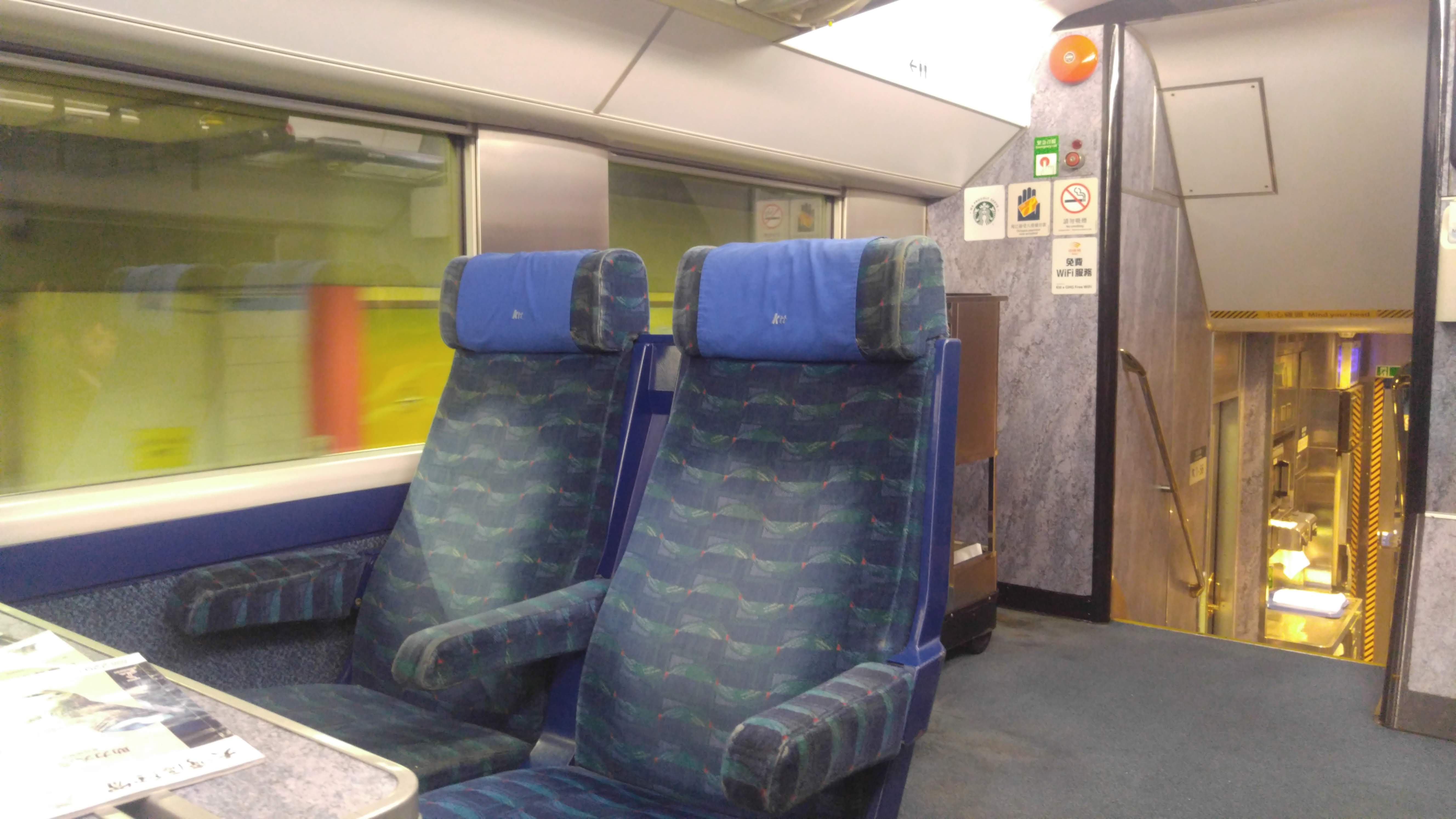 interior of unrefurbished ktt coaches